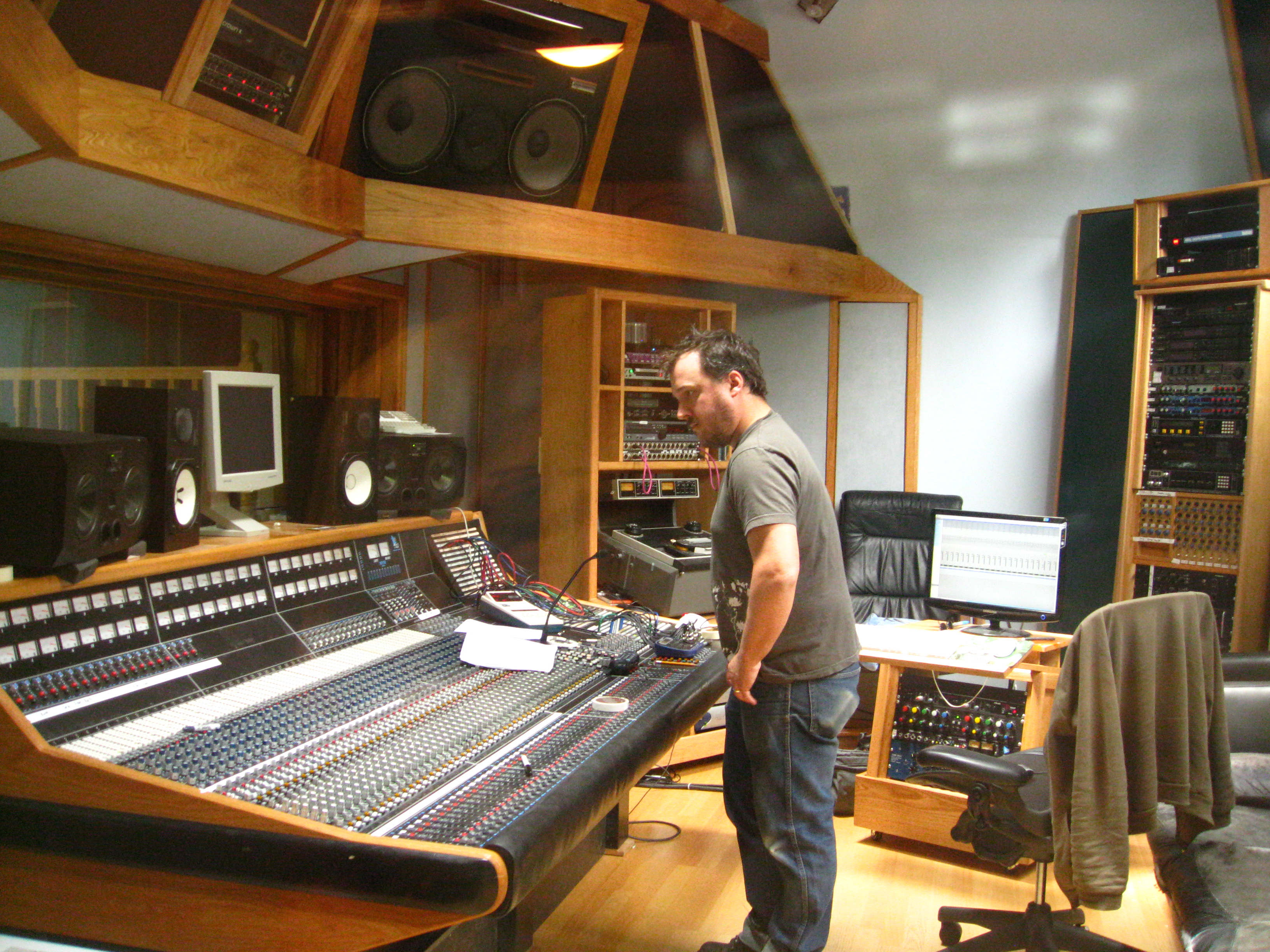 Supernatural Sound - control room